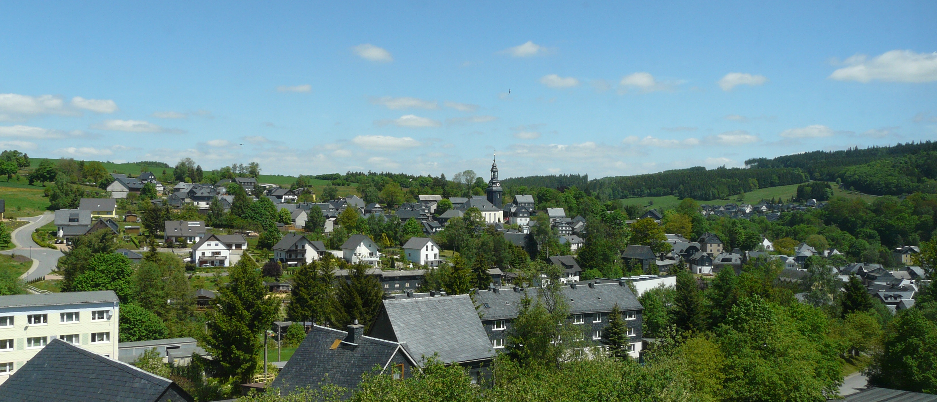 townscape Wurzbach